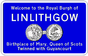 Street sign in Linlithgow, Scotland. These would not be considered copyrightable.